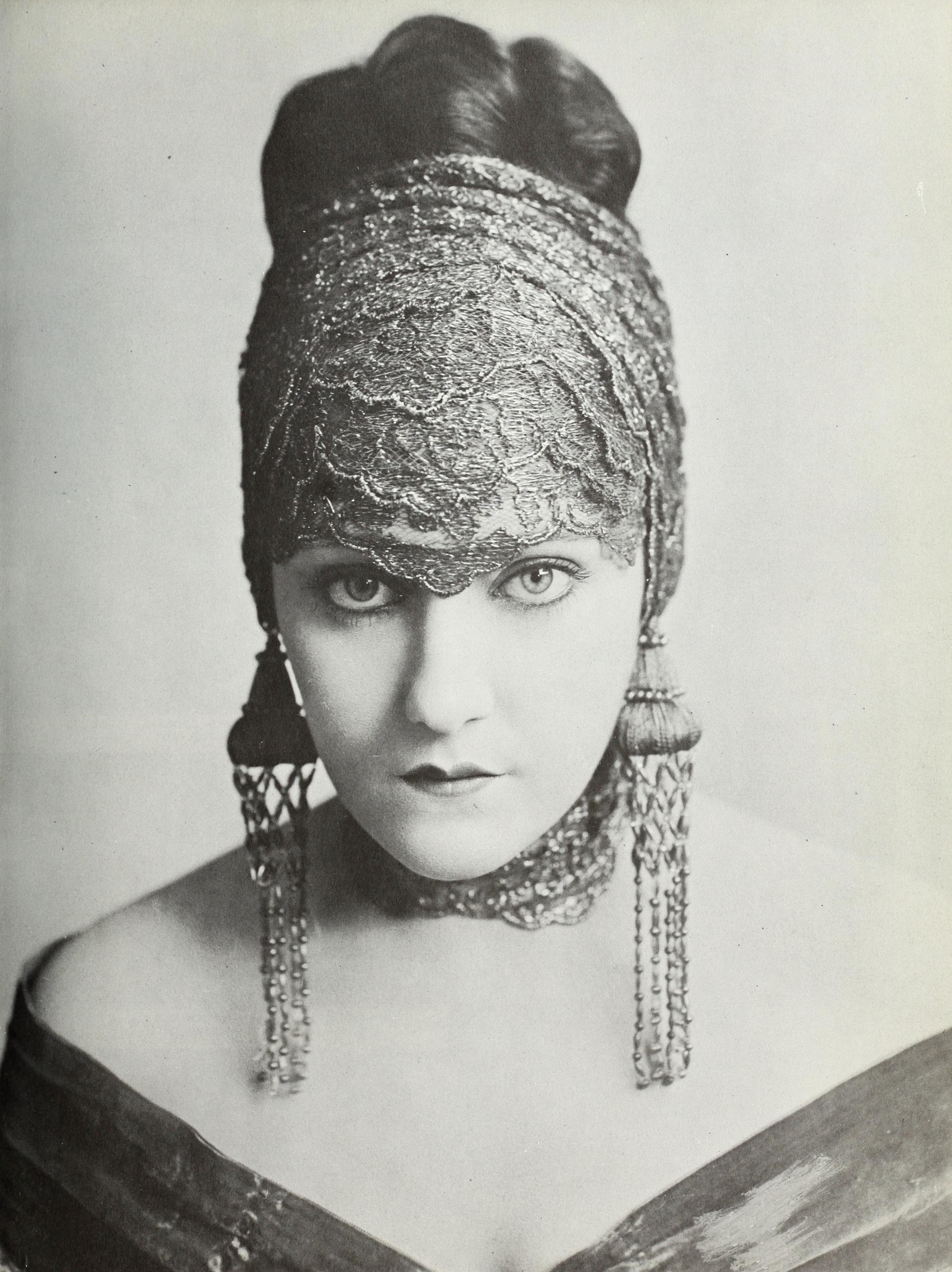 1919 portrait of Gloria Swanson